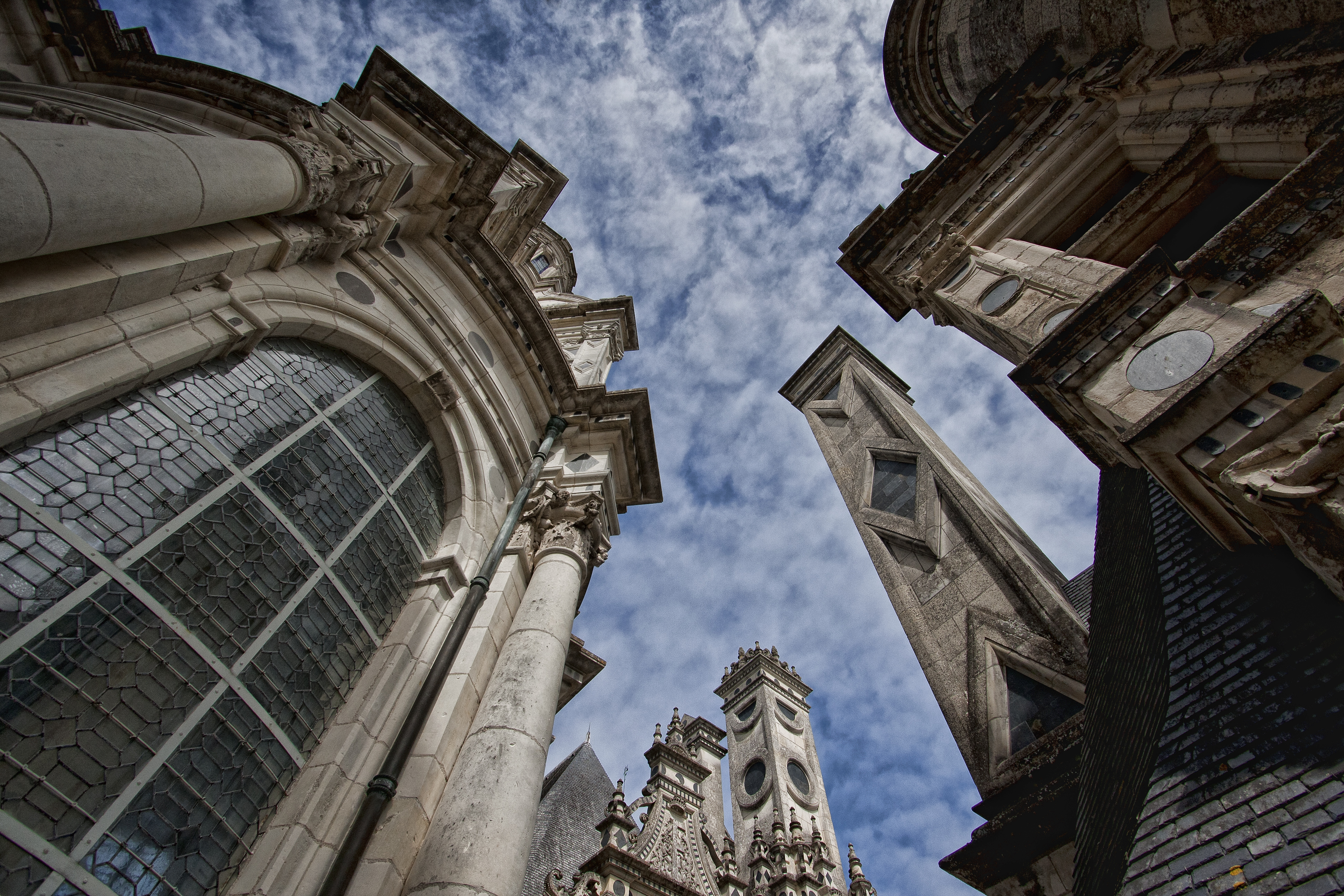 View from the castle roof of Chambord, Loire, France